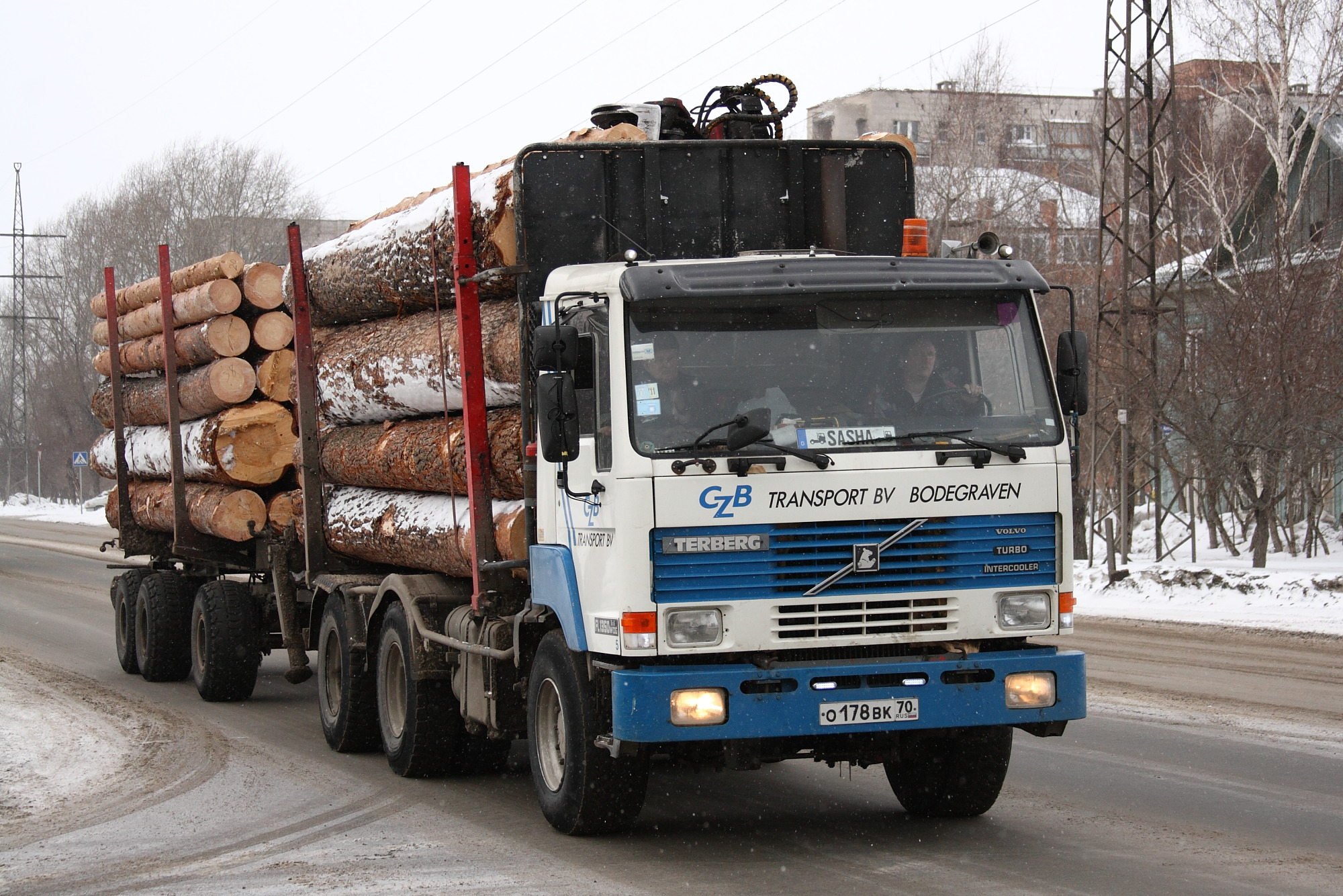 Terberg FL1350 in Tomsk, Russia